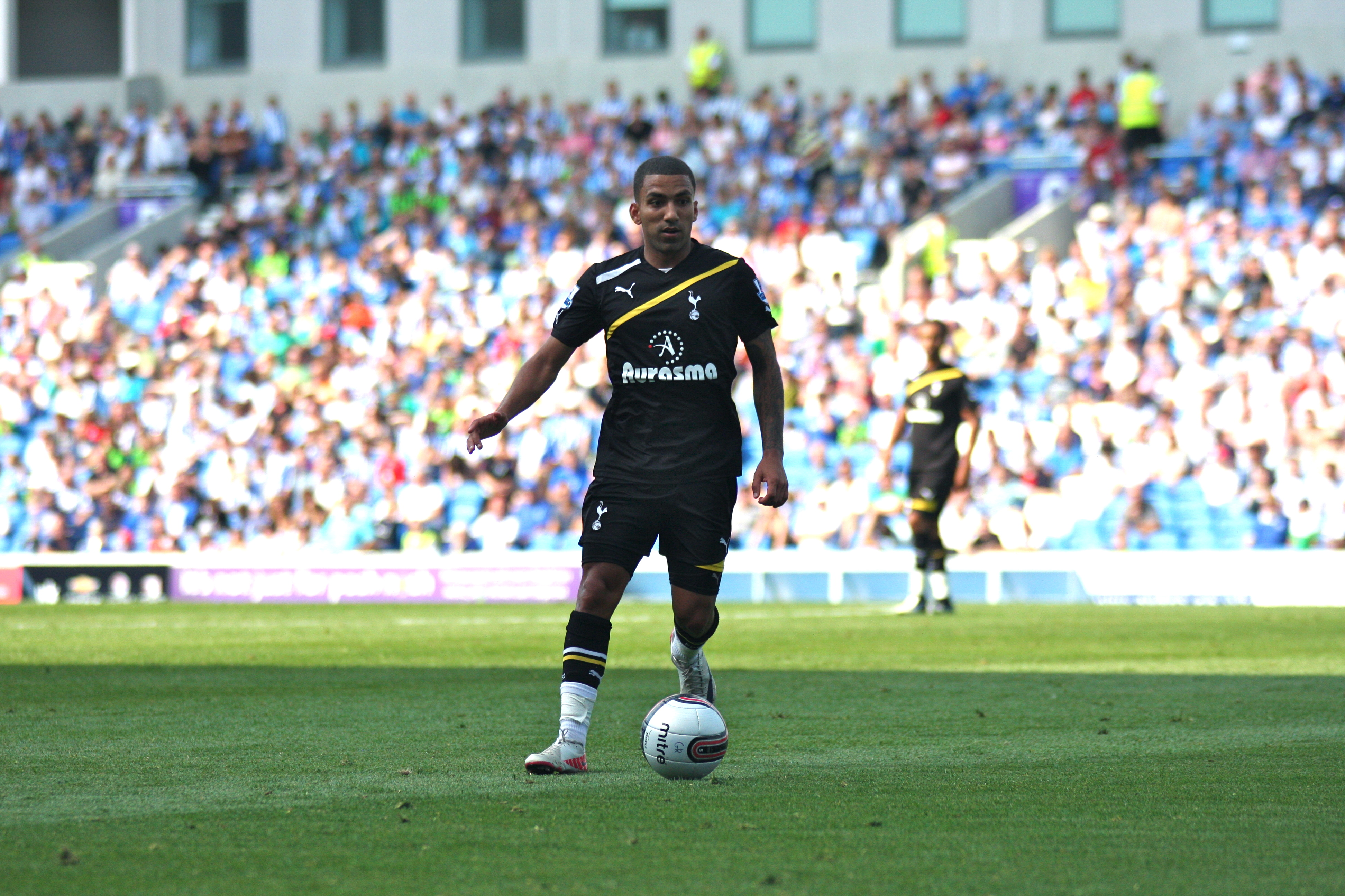 Aaron Lennon of Tottenham Hotspur